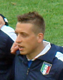 Gdańsk, 10 June 2012, PGE Arena. Spain vs Italy (1-1), UEFA Euro 2012 group stage. Azzurri's midfielder Emanuele Giaccherini.